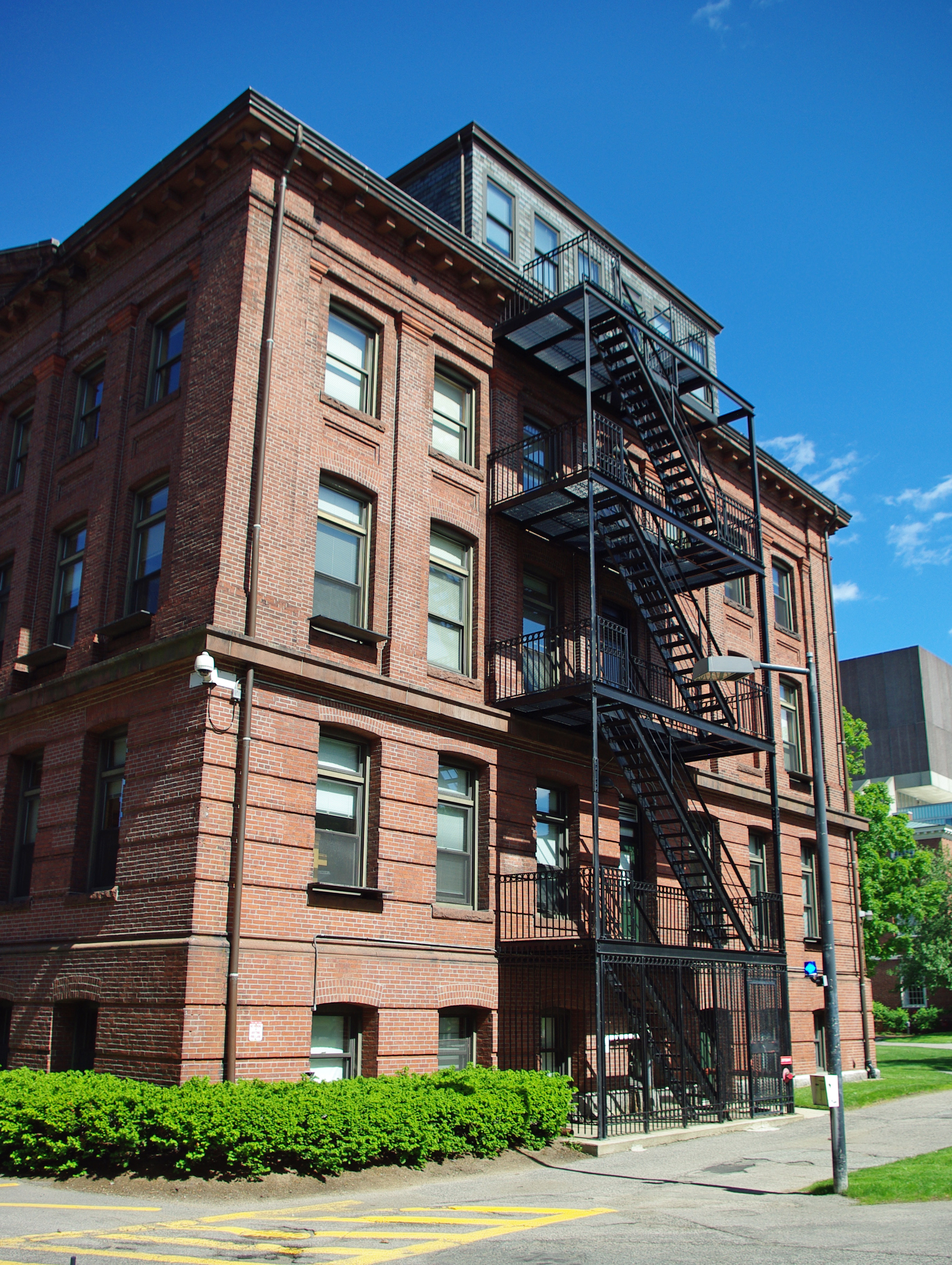 Jefferson Laboratory